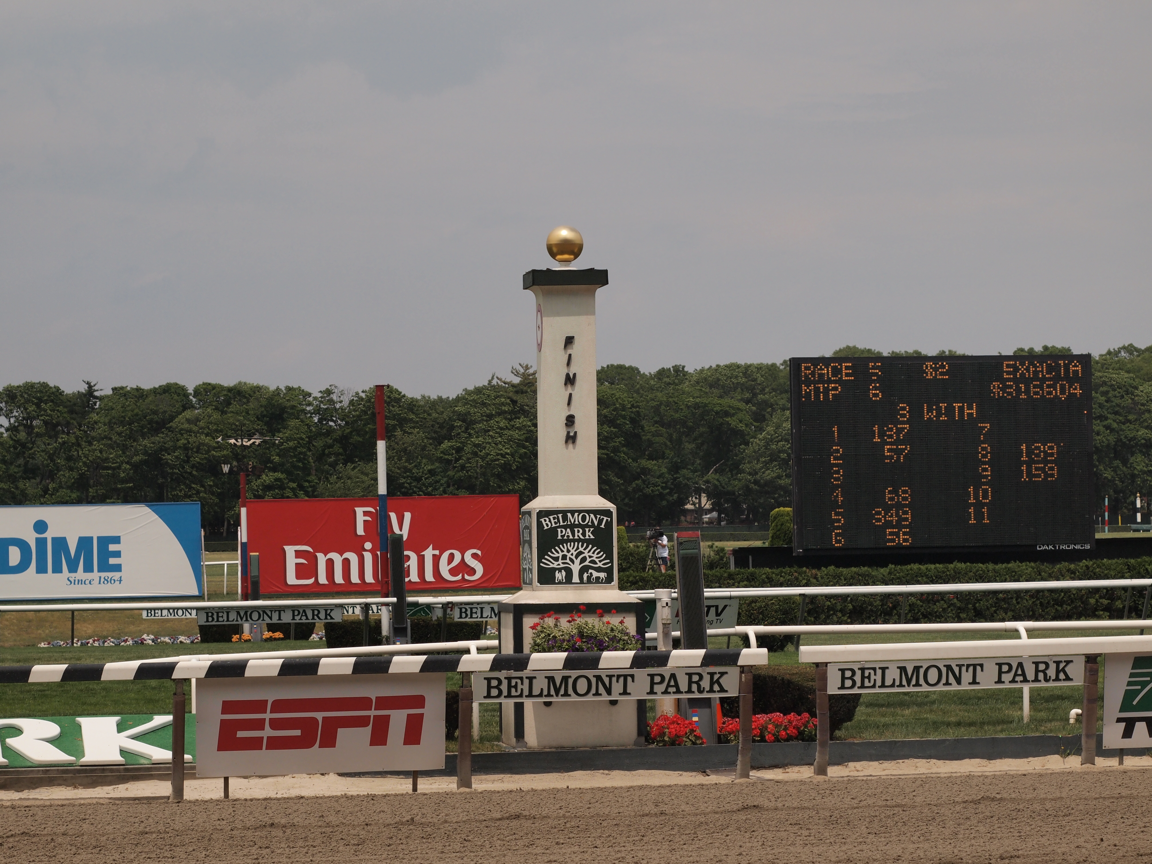 Images taken at Belmont Park on Belmont Stakes day, June 5, 2010